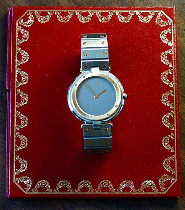 a watch on a red box